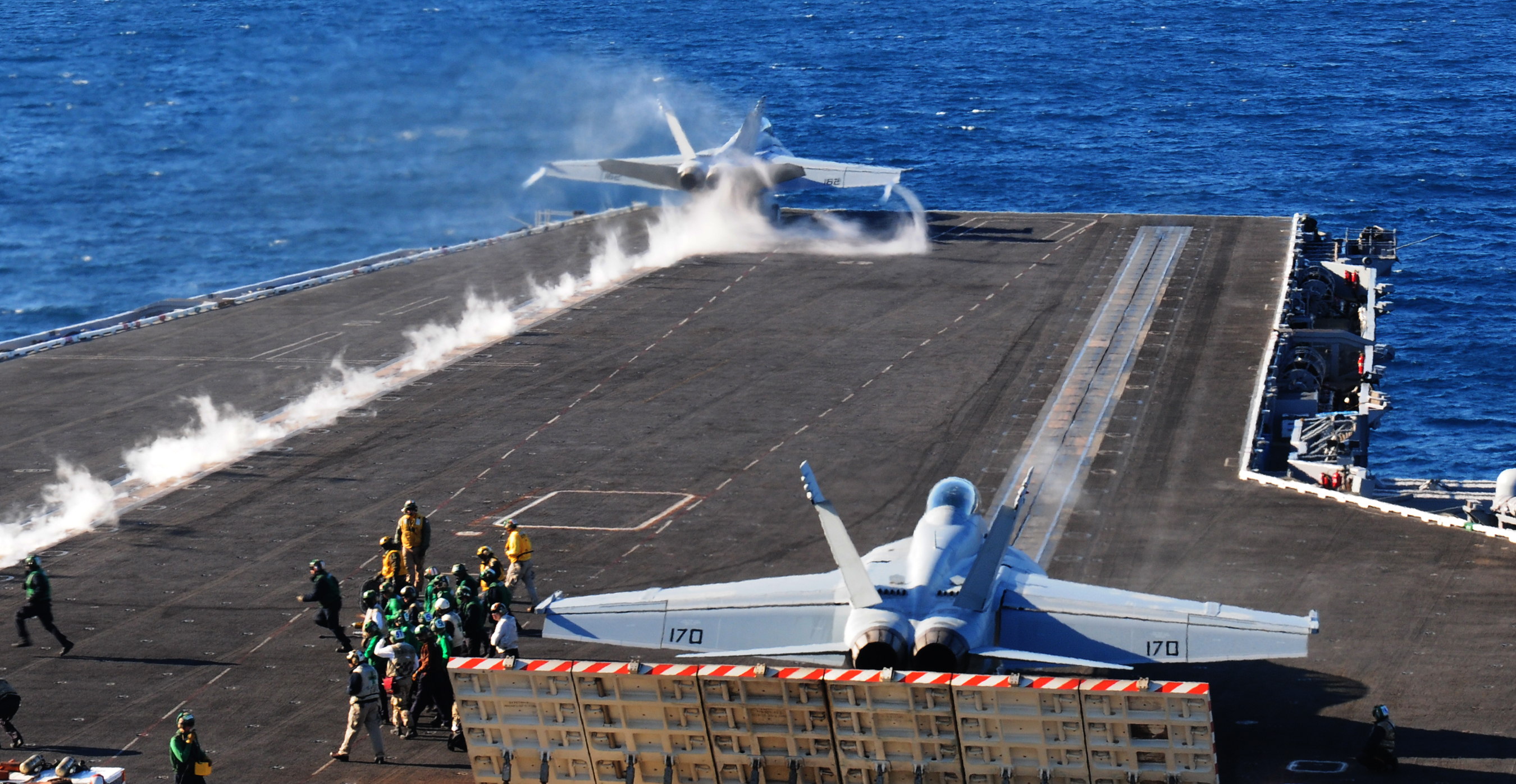 PACIFIC OCEAN (Feb. 25, 2013) An F/A-18F Super Hornet from Strike Fighter Squadron (VFA) 122 launches off the aircraft carrier USS Carl Vinson (CVN 70). Carl Vinson is underway conducting fleet replacement squadron carrier qualifications. (U.S. Navy photo by Mass Communication Specialist Seaman Jacob G. Kaucher/Released) 130225-N-LN833-434 Join the conversation navylive.dodlive.mil